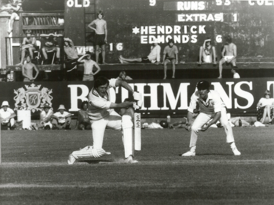 February 1978, Basin Reserve, Wellington AAQT 6539 W3537 box 16 L7/14/1/241